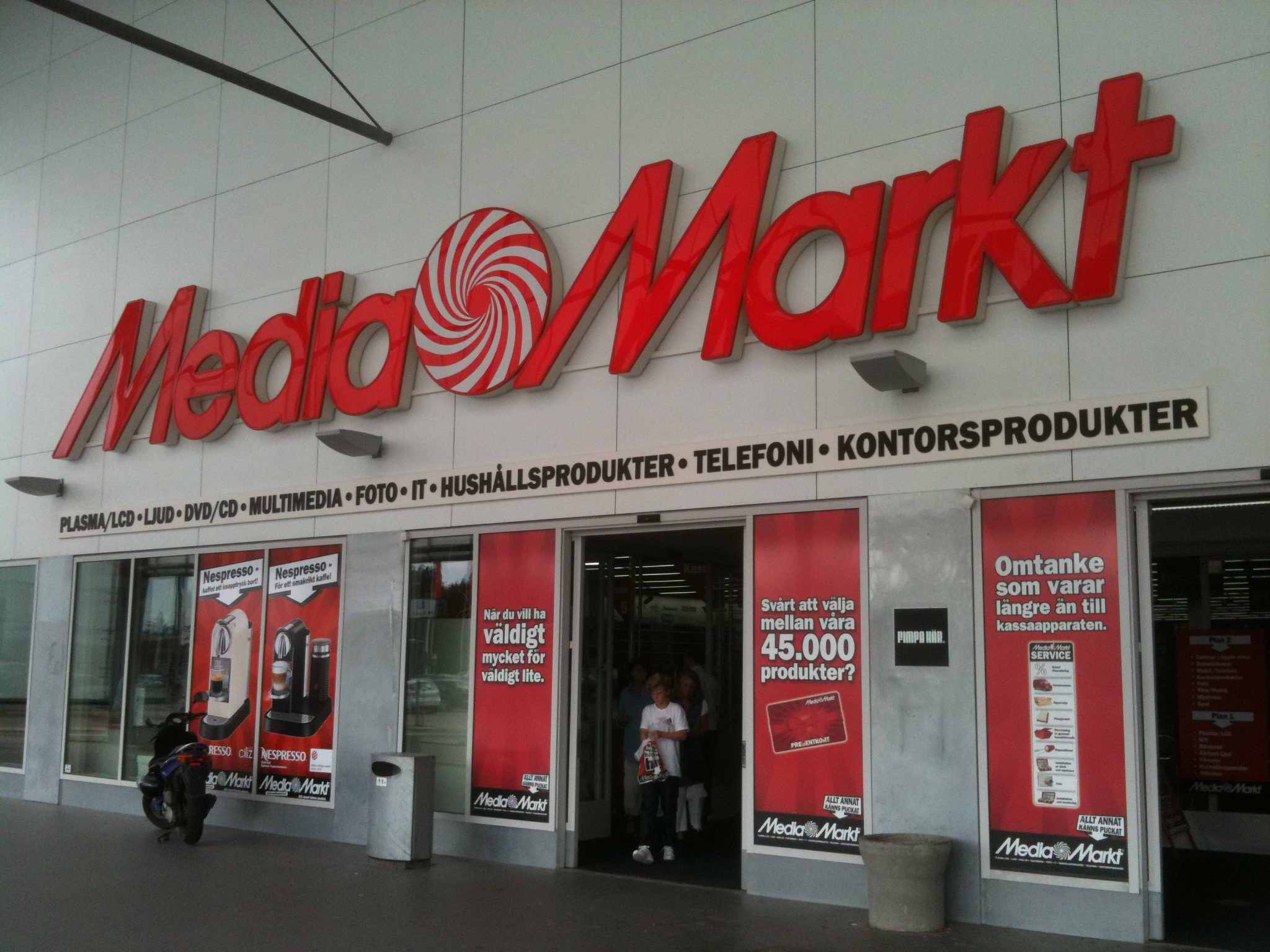 Media Markt at the shopping mall Högsbo 421 in Gothenburg, Sweden.